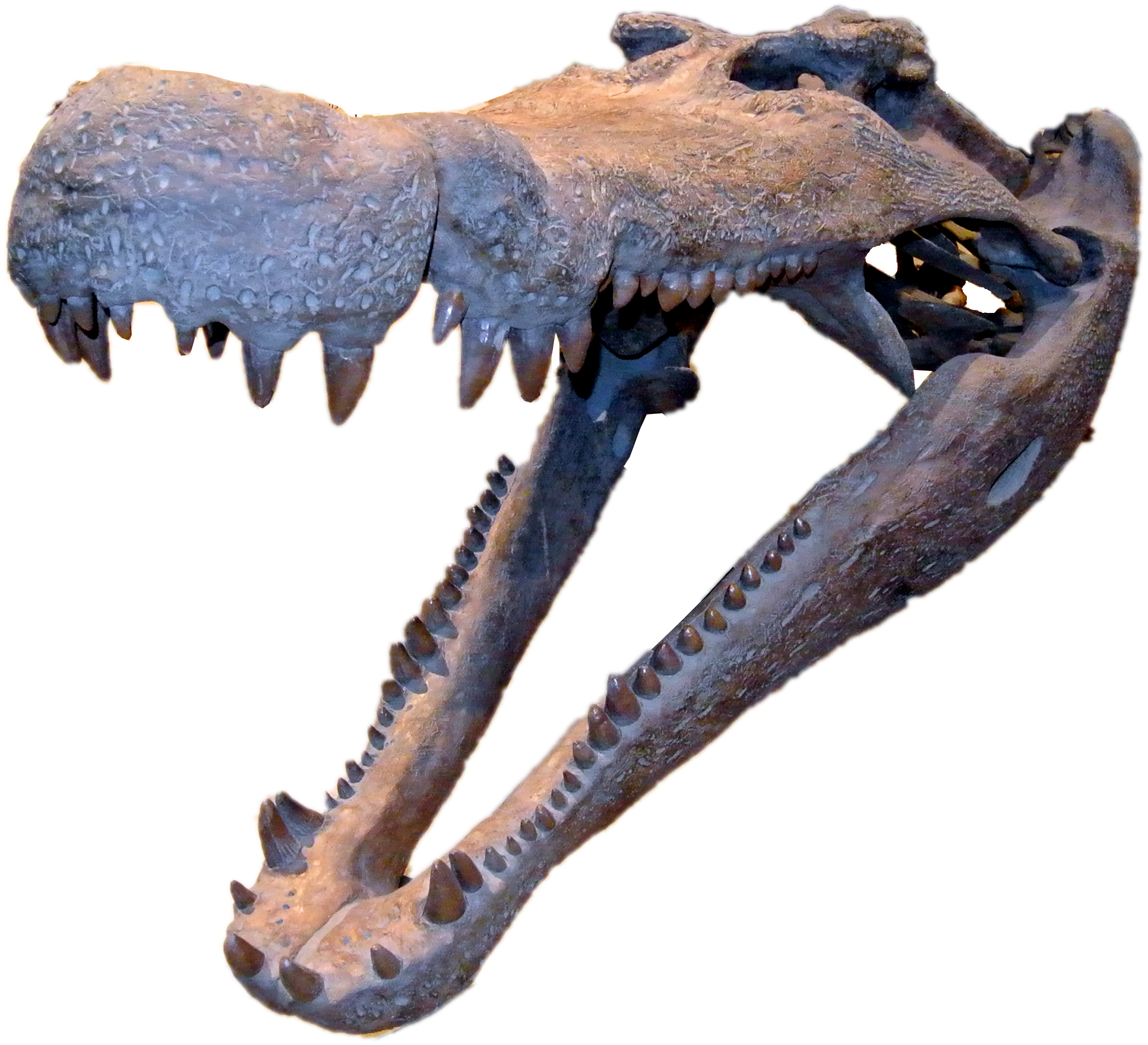 Deinosuchus hatcheri skull at the Natural History Museum of Utah.